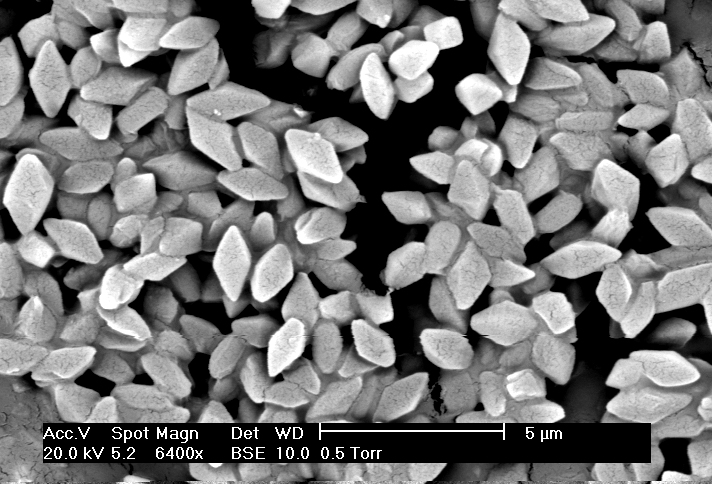 Crystals of Bt-toxin from Bacillus thuringiensis serovar morrisoni strain T08025. Microscopy by Jim Buckman